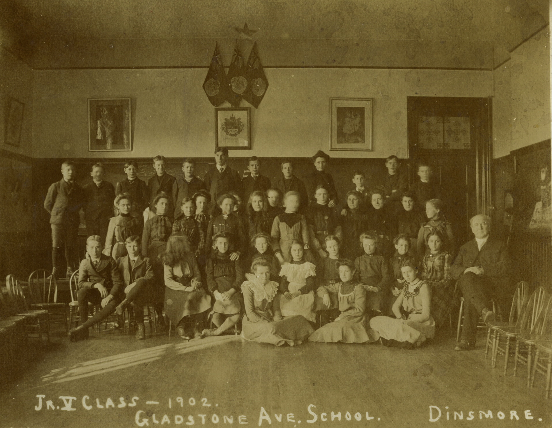 Everyone’s talking about teachers and their students today. This 1902 photograph of the Alexander Muir/Gladstone Ave. public school shows the principle, Alexander Muir, and Miss Adda Burger, the teacher of this grade 5 class. Mr Muir is best known for having written the song “Maple Leaf Forever”. The original school (Alexander Muir), built in 1888, welcomed students in grades 1-6. The adjoining building (Gladstone Ave.), built in 1952, housed grades 7 and 8. Creator: Dinsmore, Edward J Date: 1902 Identifier: 972-7 Format: Picture Rights: Public domain Courtesy: Toronto Public Library. More information: (view details and larger image)